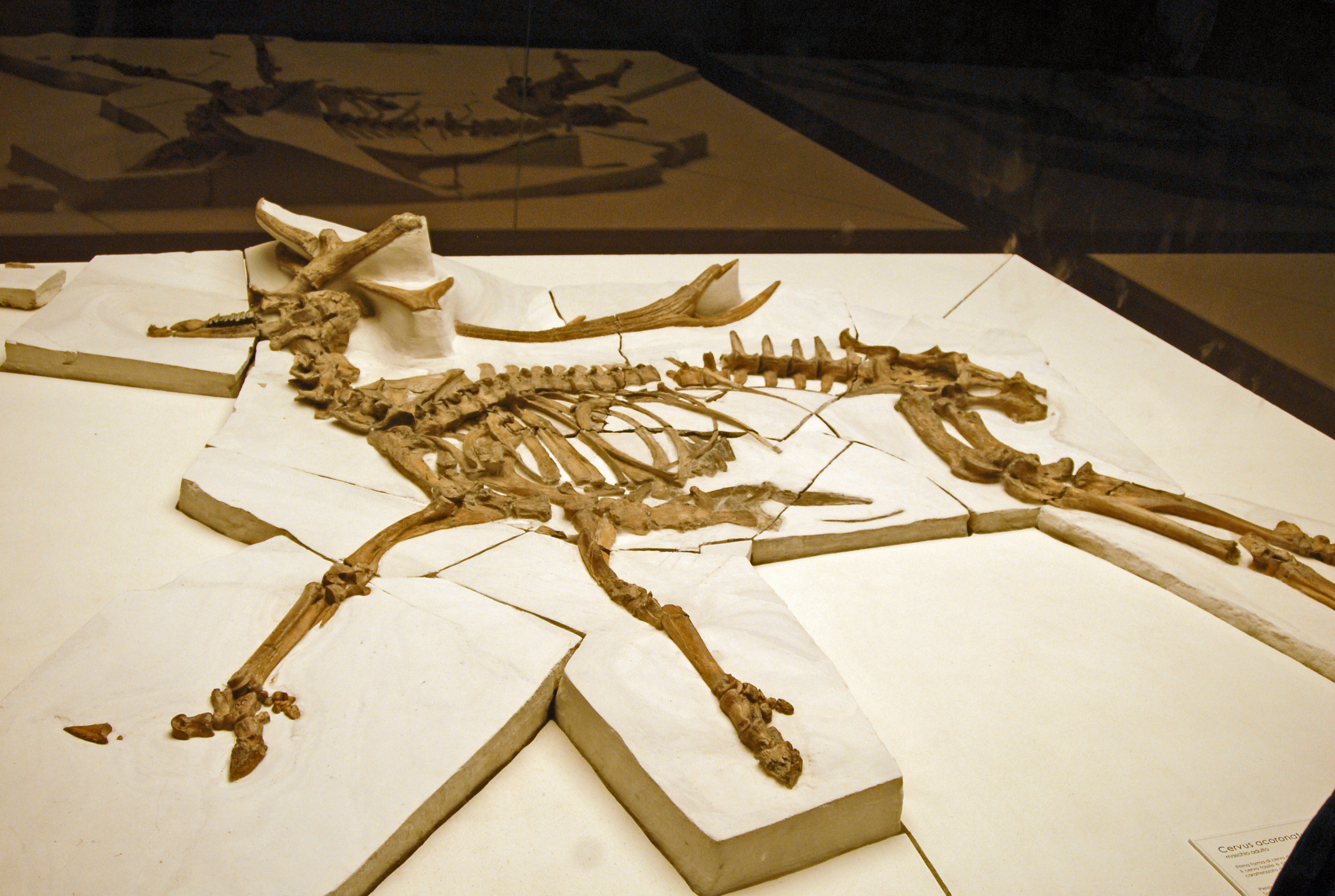 Skeleton in anatomical connection of Cervus elaphus acoronatus discovered in Sovere, Bergamo, on display at Museo di Scienze Naturali Enrico Caffi, Bergamo.